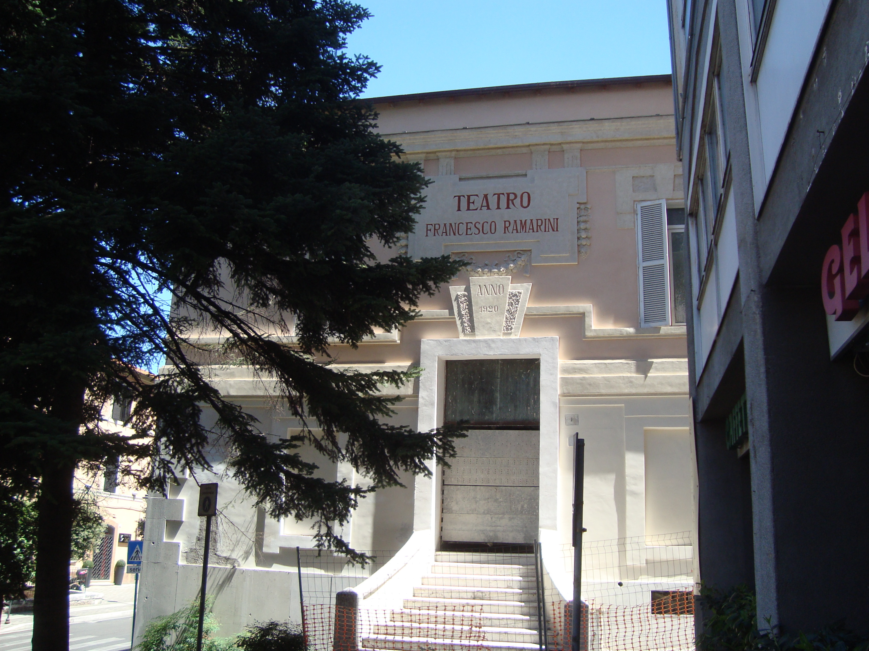 The Theatre Francesco-Ramarini in Monterotondo built in 1920